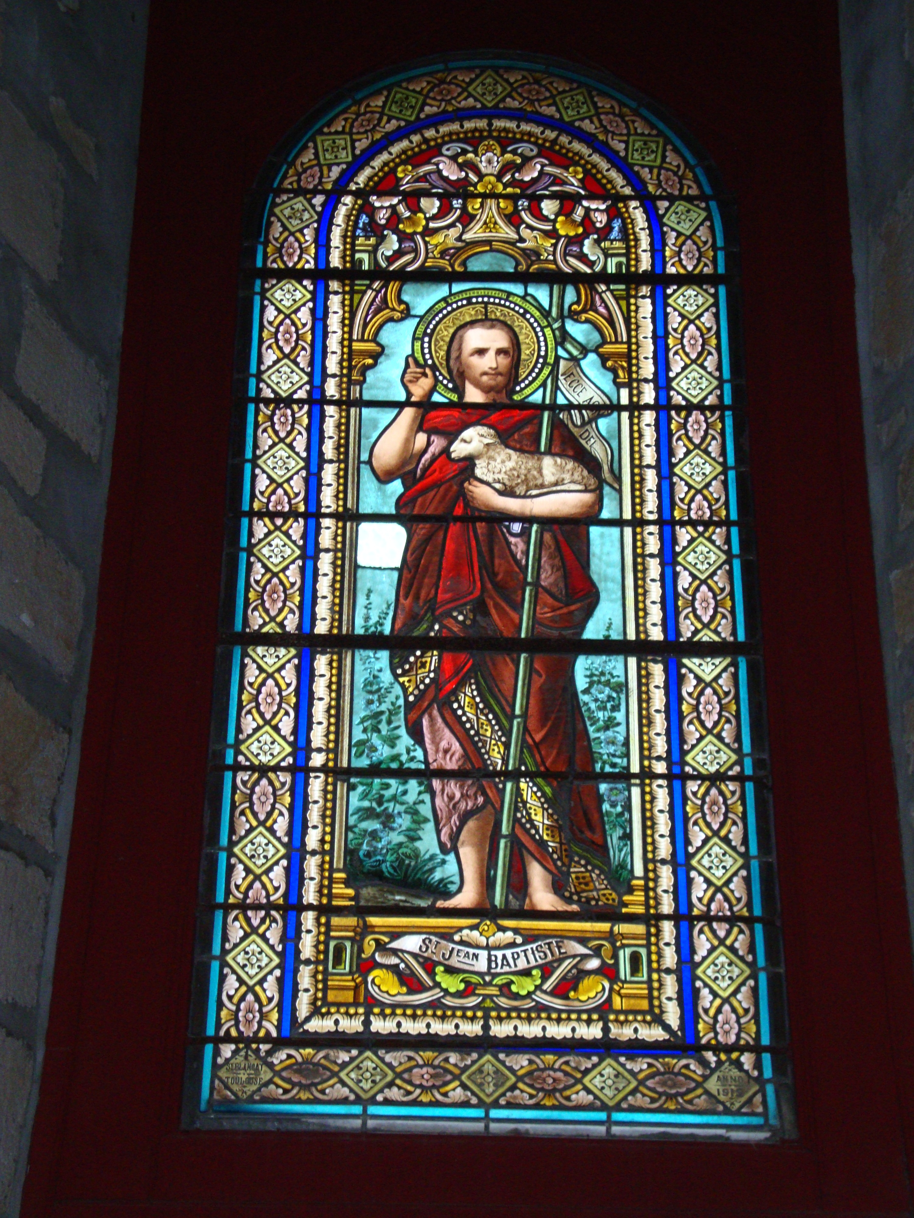 Domezain (Domezain-Berraute, Pyr-Atl, Fr) stained glass window of Saint John the Baptist, signatur: "ST. BLANCAT TOULOUSE ANNO 1919"